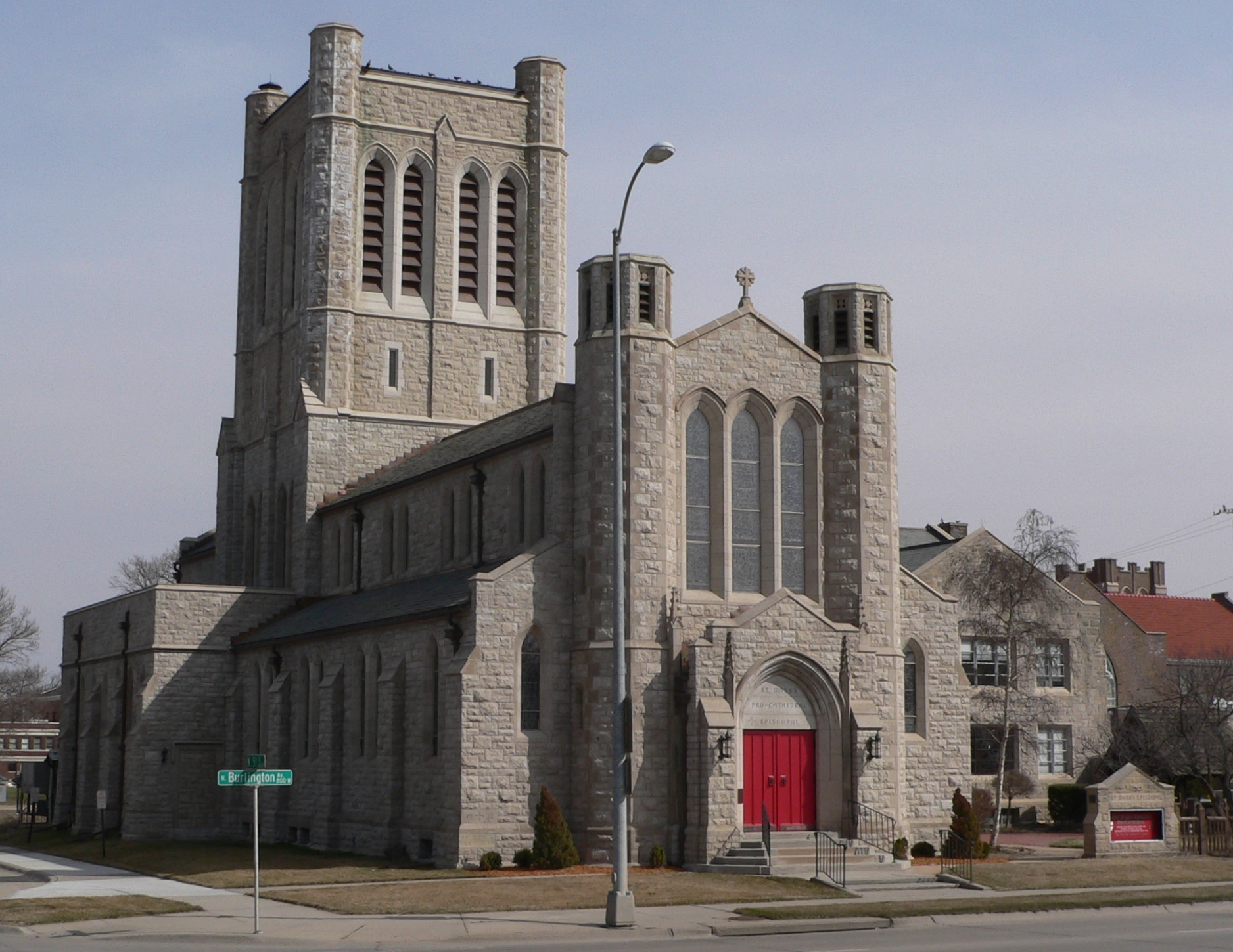 St. Mark's Episcopal Pro-Cathedral at 4th and Burlington in Hastings, Nebraska; seen from the northwest. The building was designed in Late Gothic Revival style in 1919 by architect Ralph Adams Cram, and built over the course of the next decade; the cornerstone was laid in 1922. It is listed in the National Register of Historic Places.